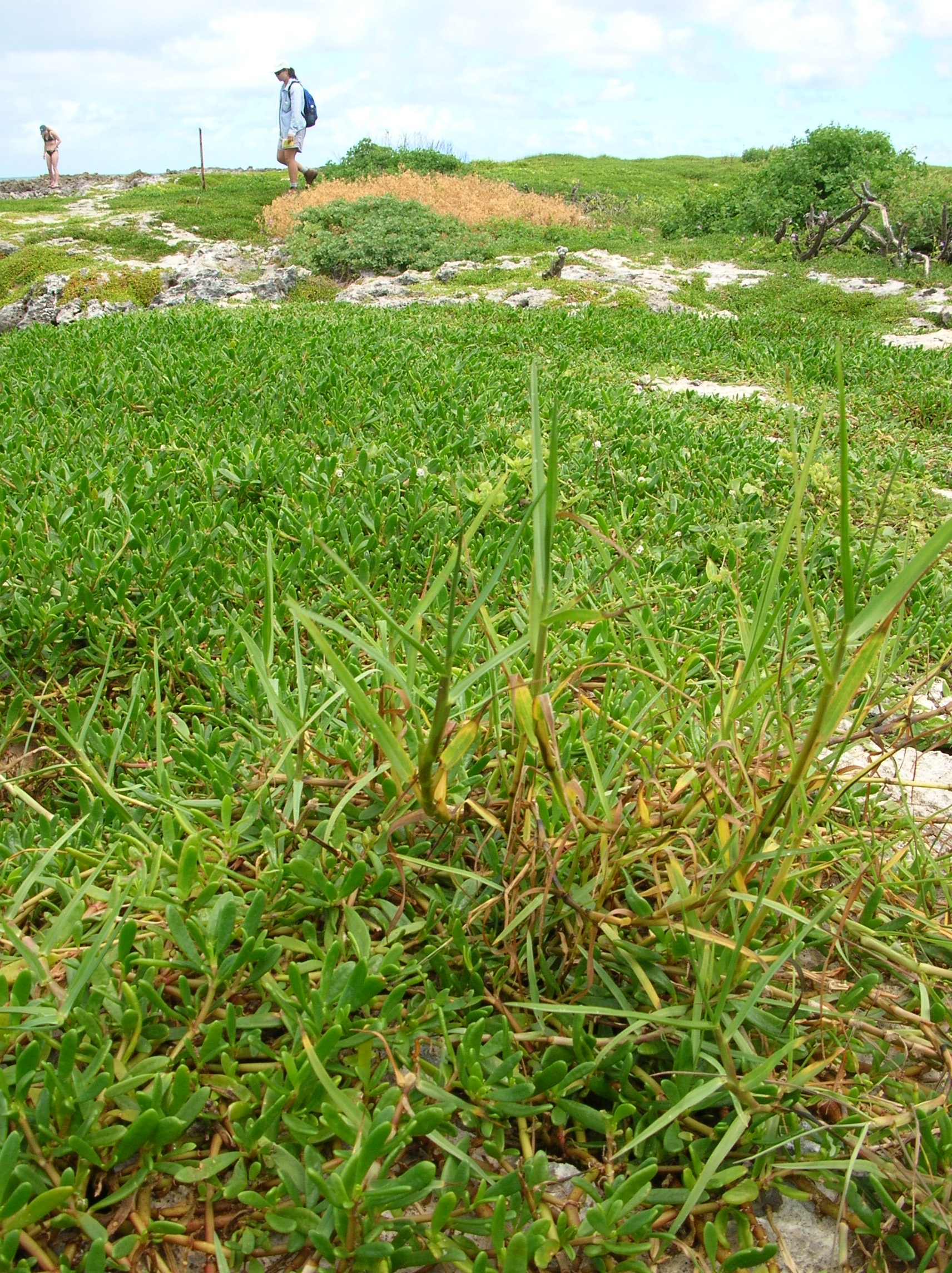 Paspalum vaginatum (habit). Location: Oahu, Popoia